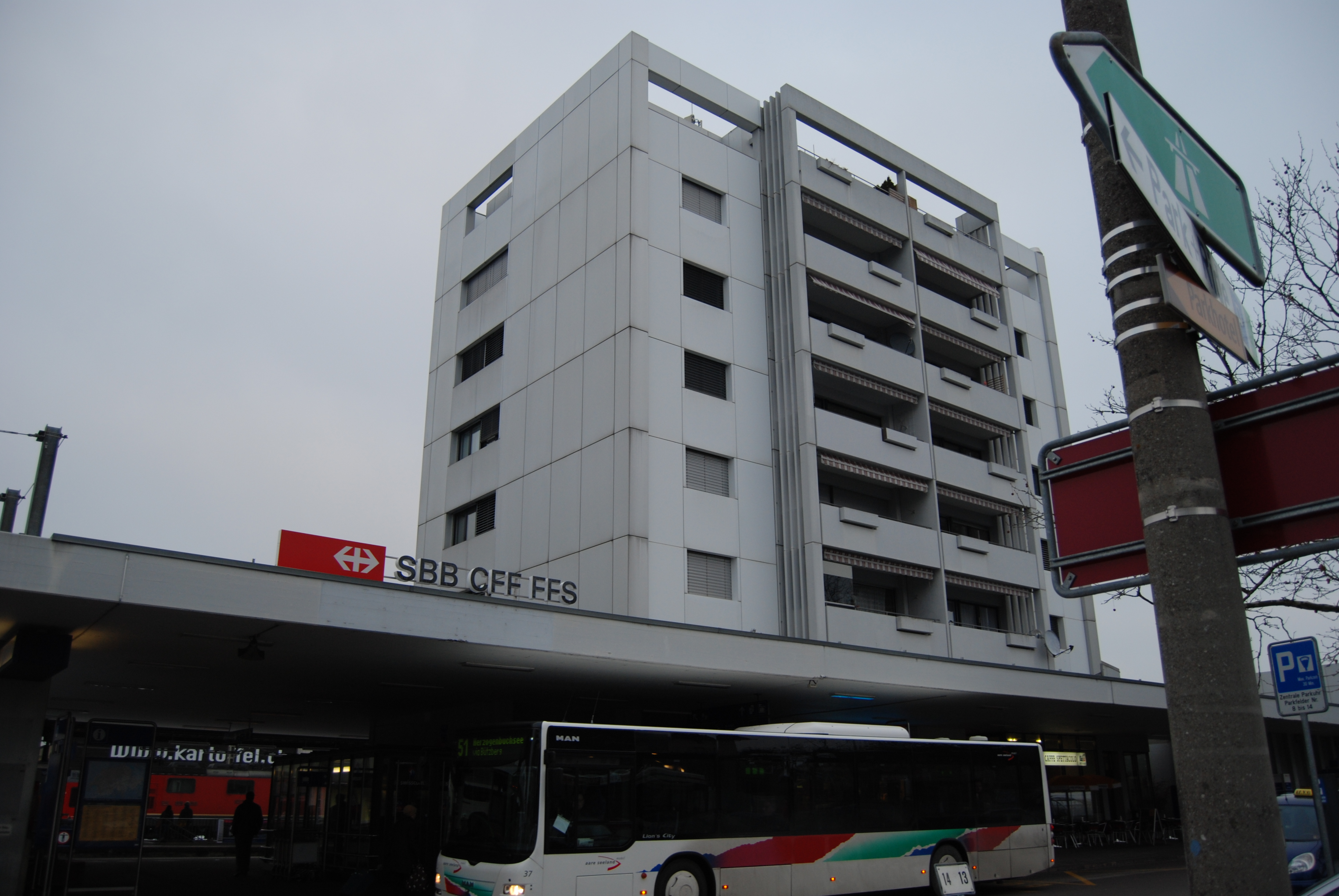 Train station of Langenthal, canton of Bern, SwitzerlandEsperanto: Stacidomo de Langenthal, Kantono Berno, Svislando